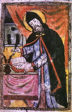 Image of the creator of the Armenian alphabet Mesrob Mashtots, Grammar of Simeon of Julfa, Matenadaran, Ms. 5996, 1776